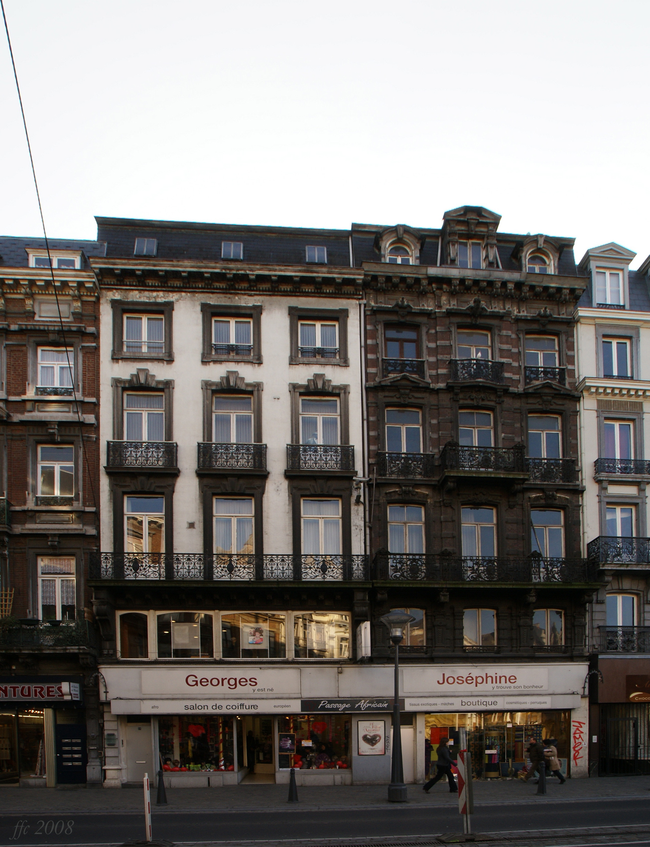 Maison Natale Georges Simenon - Casa Natal Georges Simenon - House where Georges Simenon was born